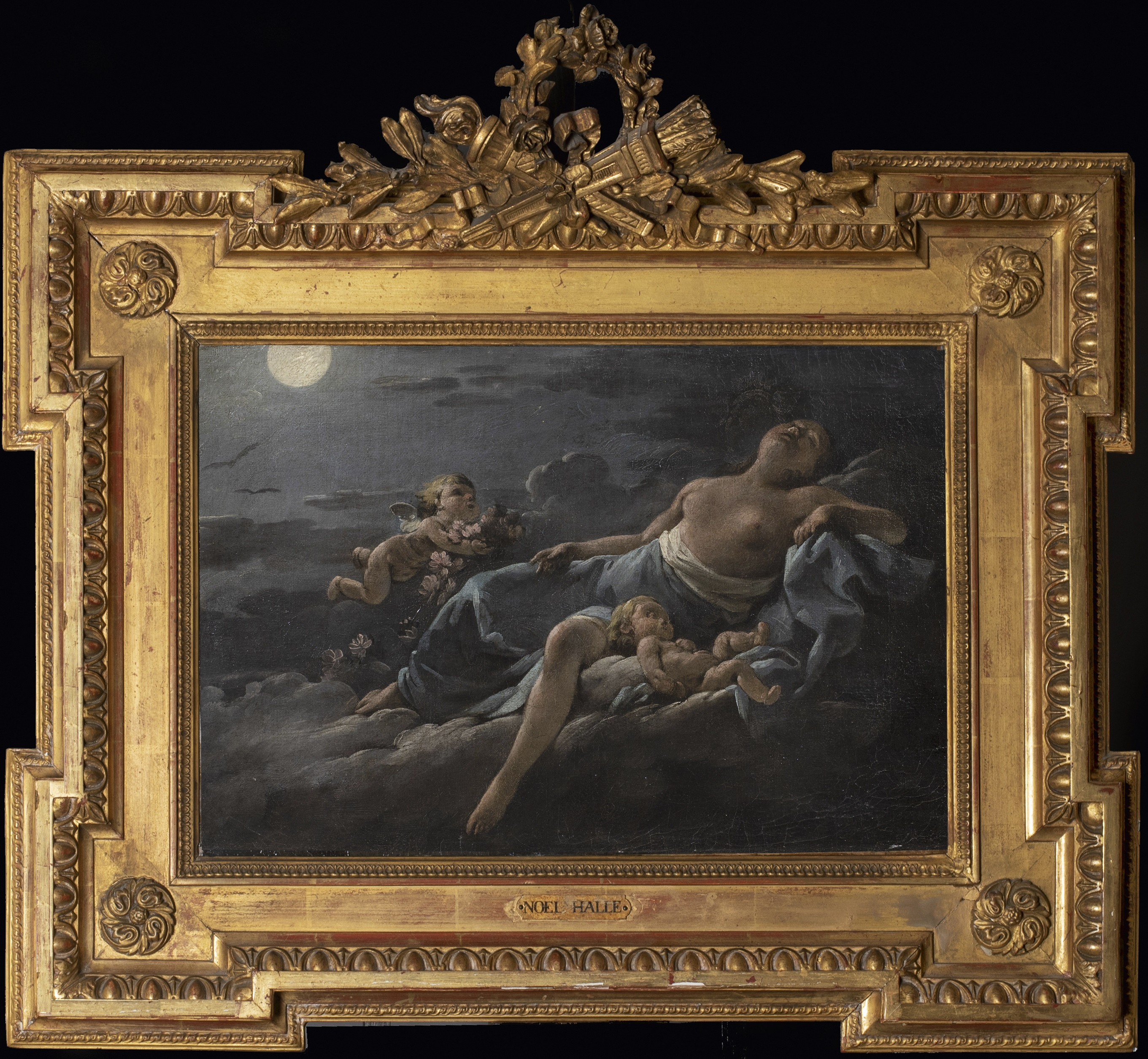 Noel Hallé - Allégorie de la Nuit - 30 × 43 cm - Private collection